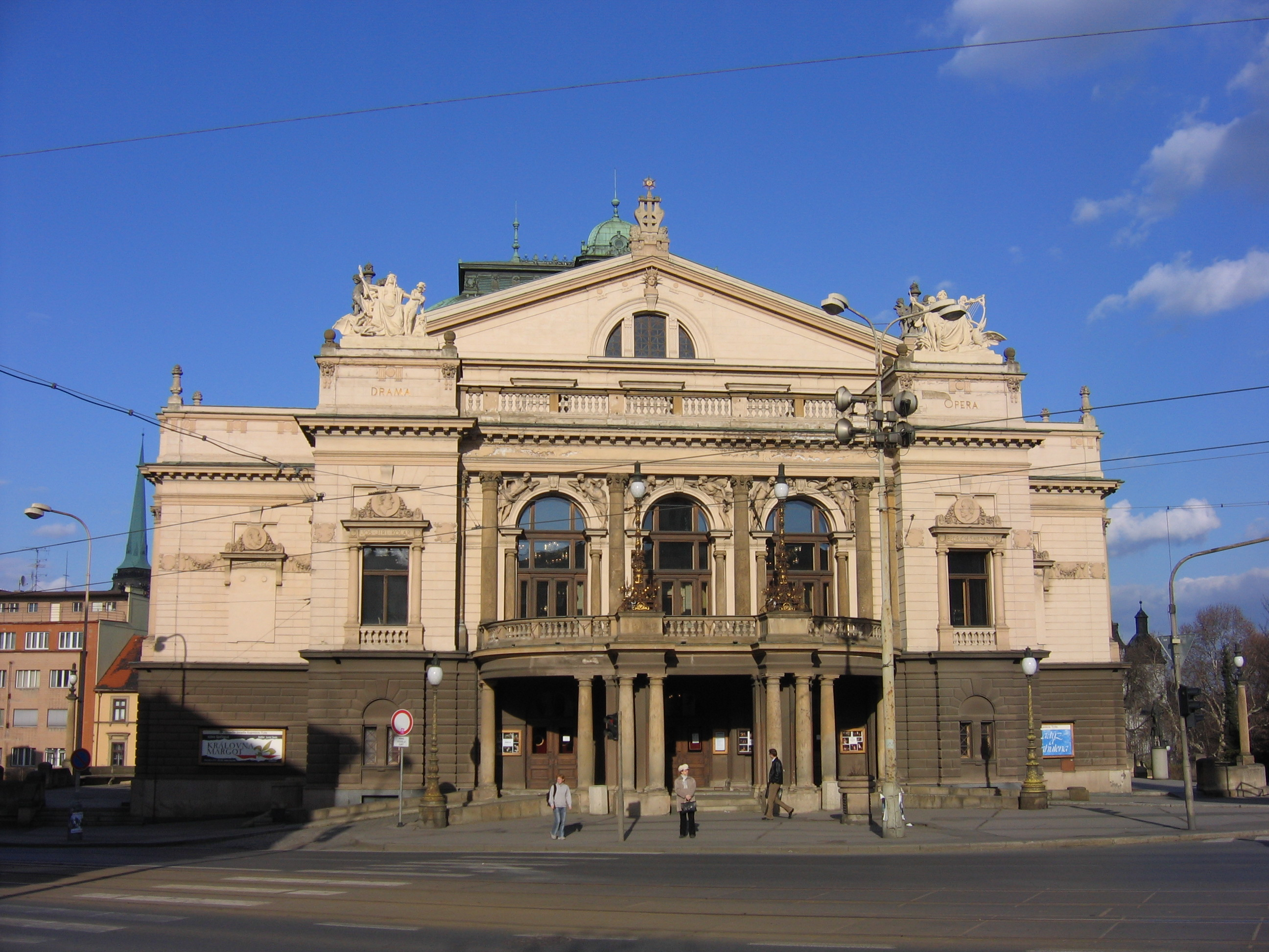 Josef Kajetán Tyl Theatre in Plzeň, Czech Republic.